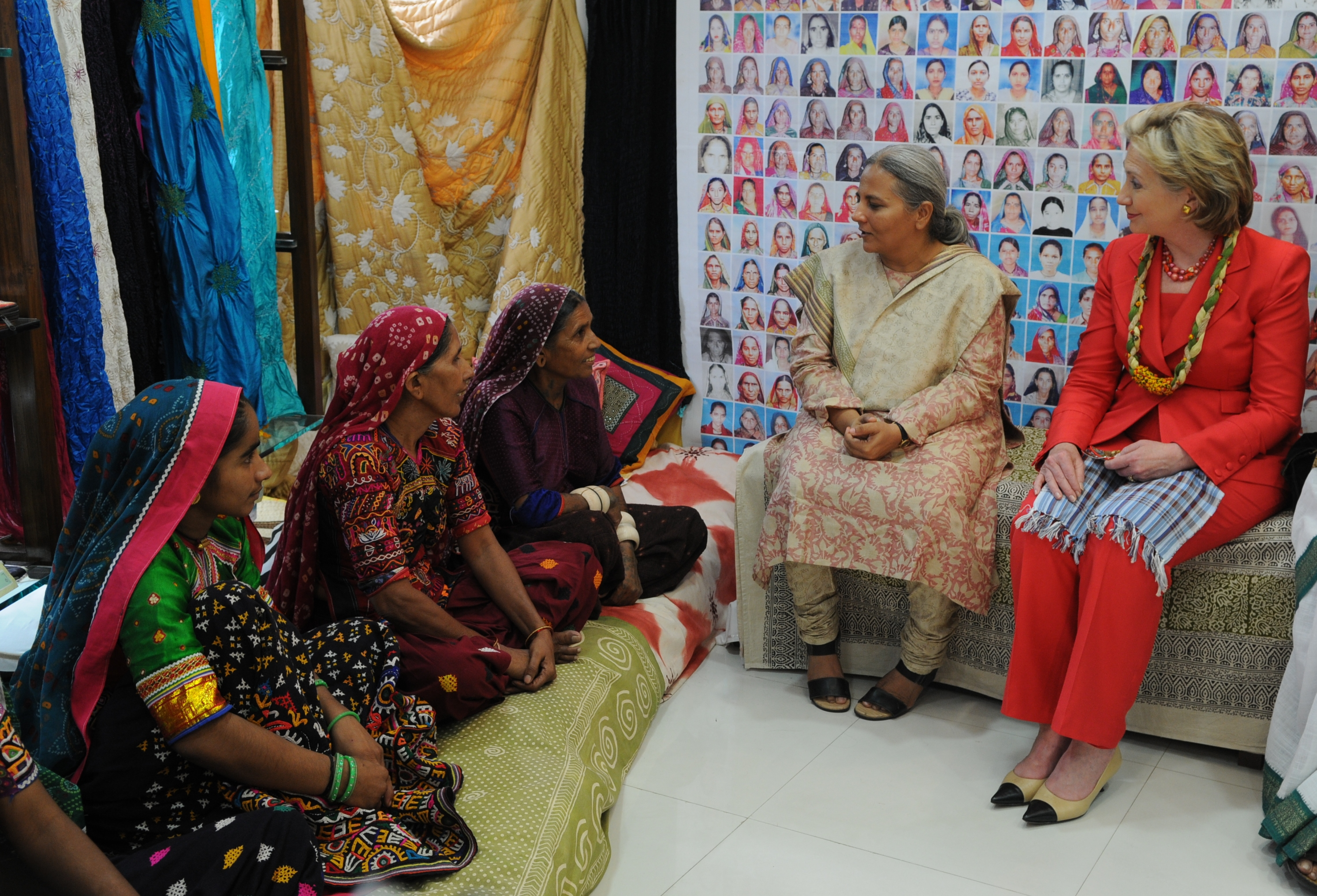 U.S. Secretary of State Hillary Rodham Clinton and SEWA Executive Director Reema Nanavaty listen as women artisans share stories of their involvement with SEWA programs that have helped them achieve economic self-sufficiency and leadership roles in the organization, at the Hansiba Store in Mumbai, India July 18, 2009. [State Department photo]